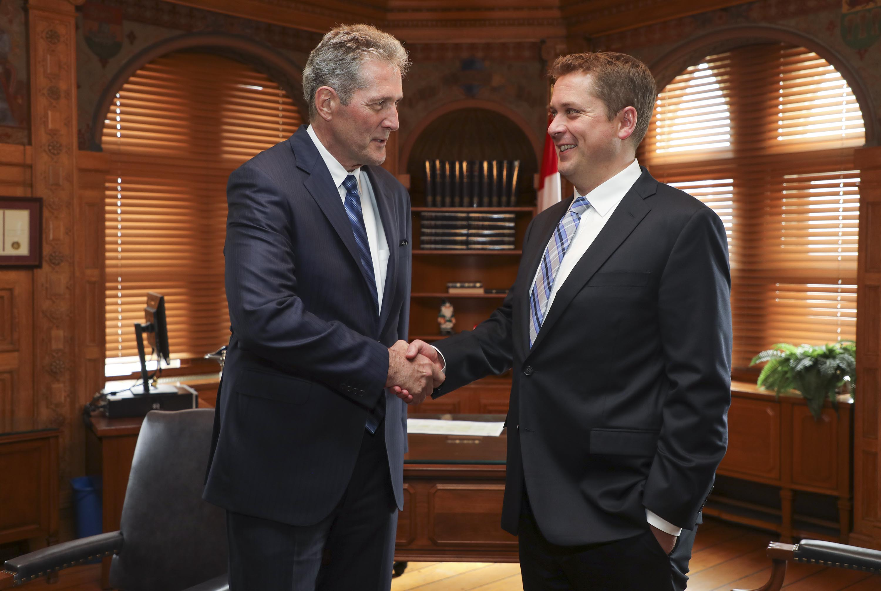 Fun fact:Brian Pallister is the only Premier taller than me! Great to sit down this afternoon to talk about healthcare and how increased interprovincial trade would help to create a strong and prosperous Manitoba. Thanks Brian!